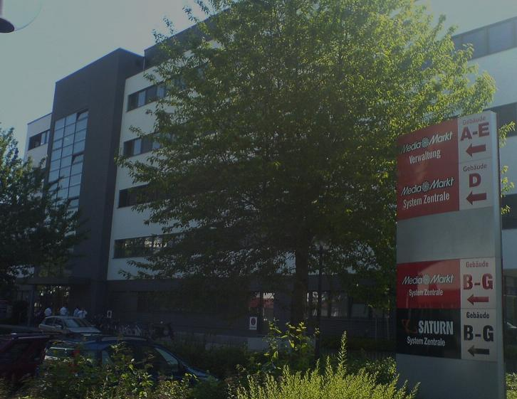 Headquarter of the Media-Saturn-Holding in Ingolstadt